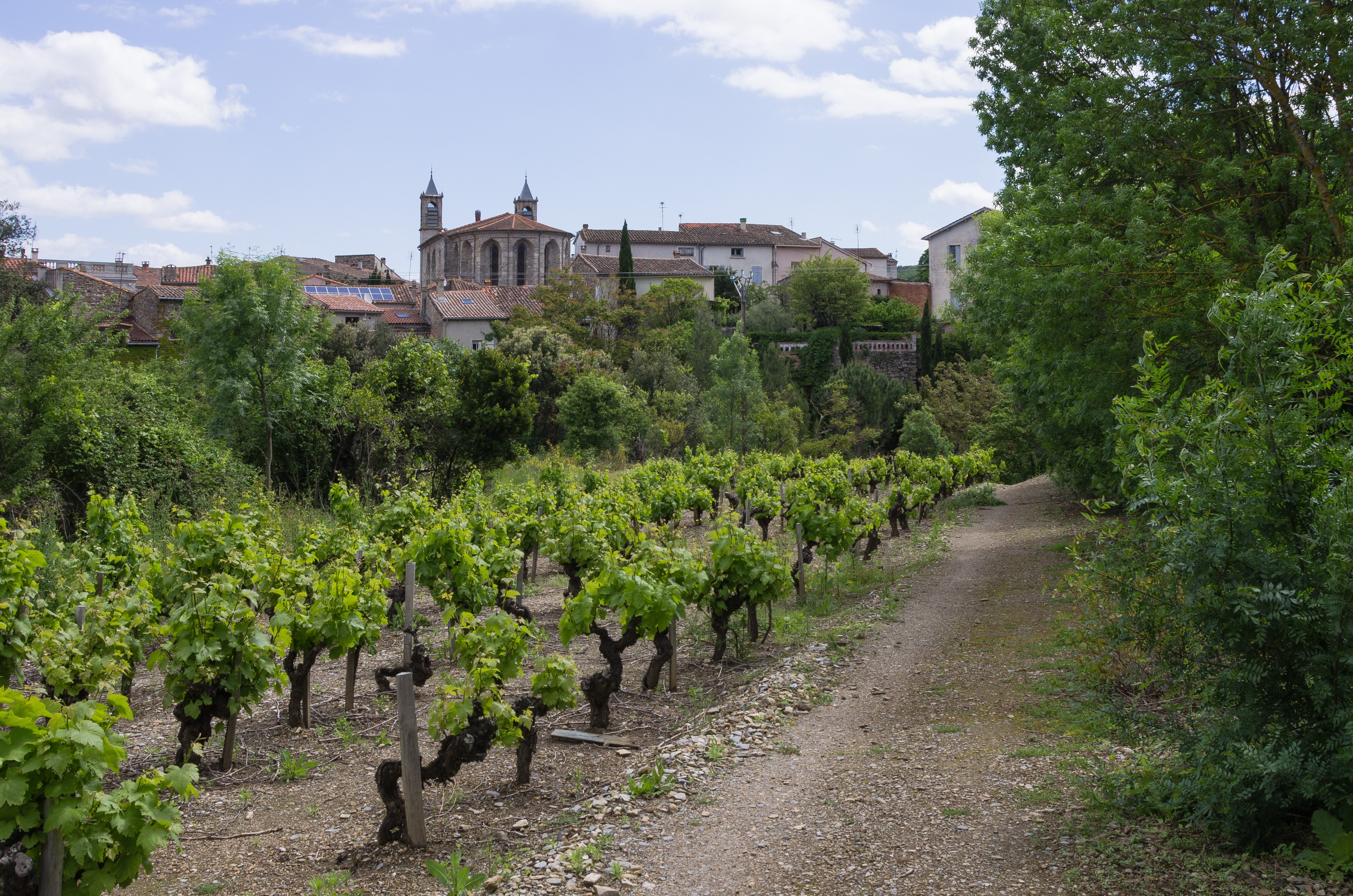 Commune of Les Aires, Hérault, France. Haut-Languedoc Regional Natural Park.